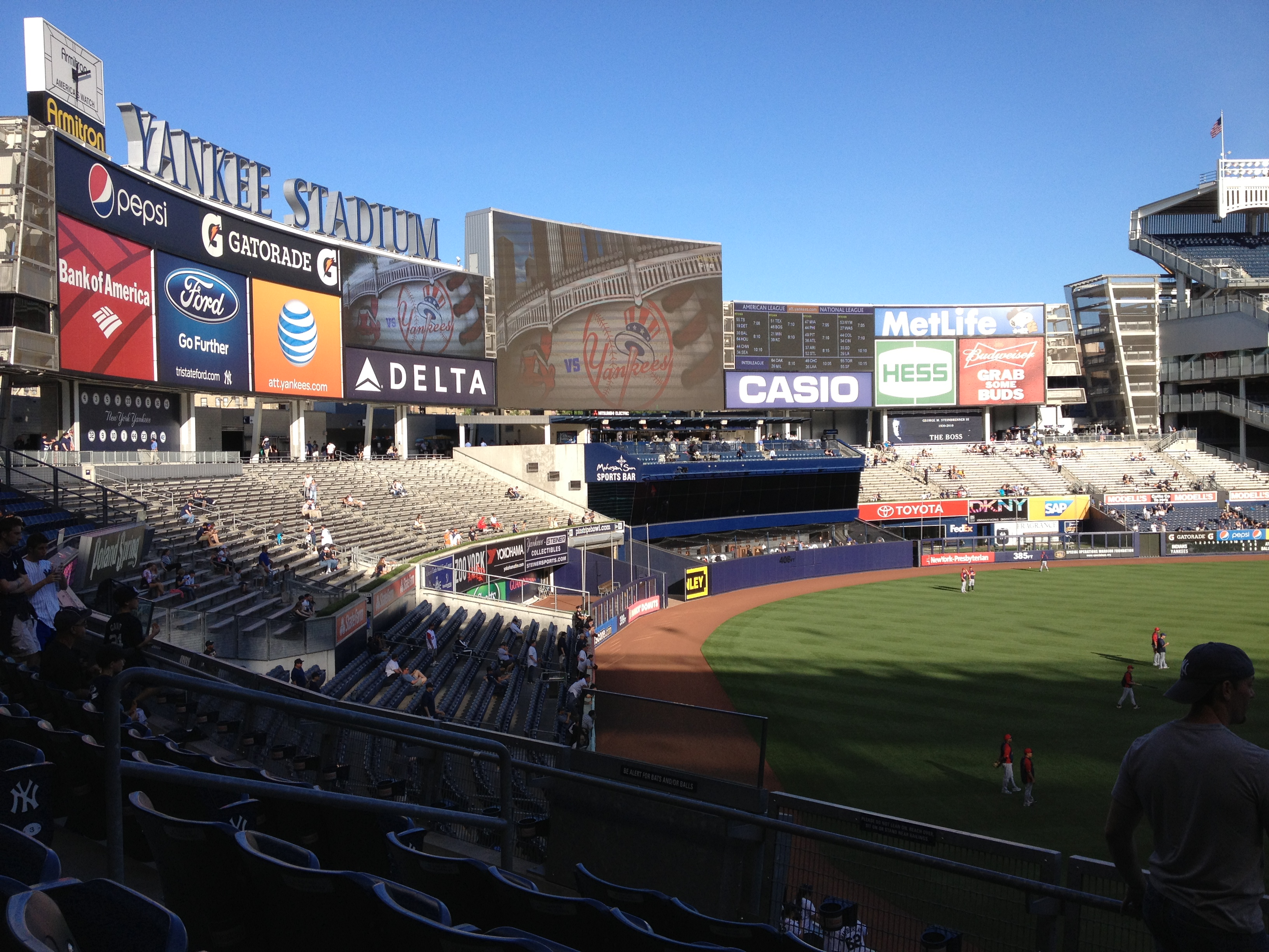 My view from my first game at Yankee Stadium. You can easily see half of the field and the jumbotron